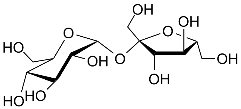 3D projection of sucrose structure